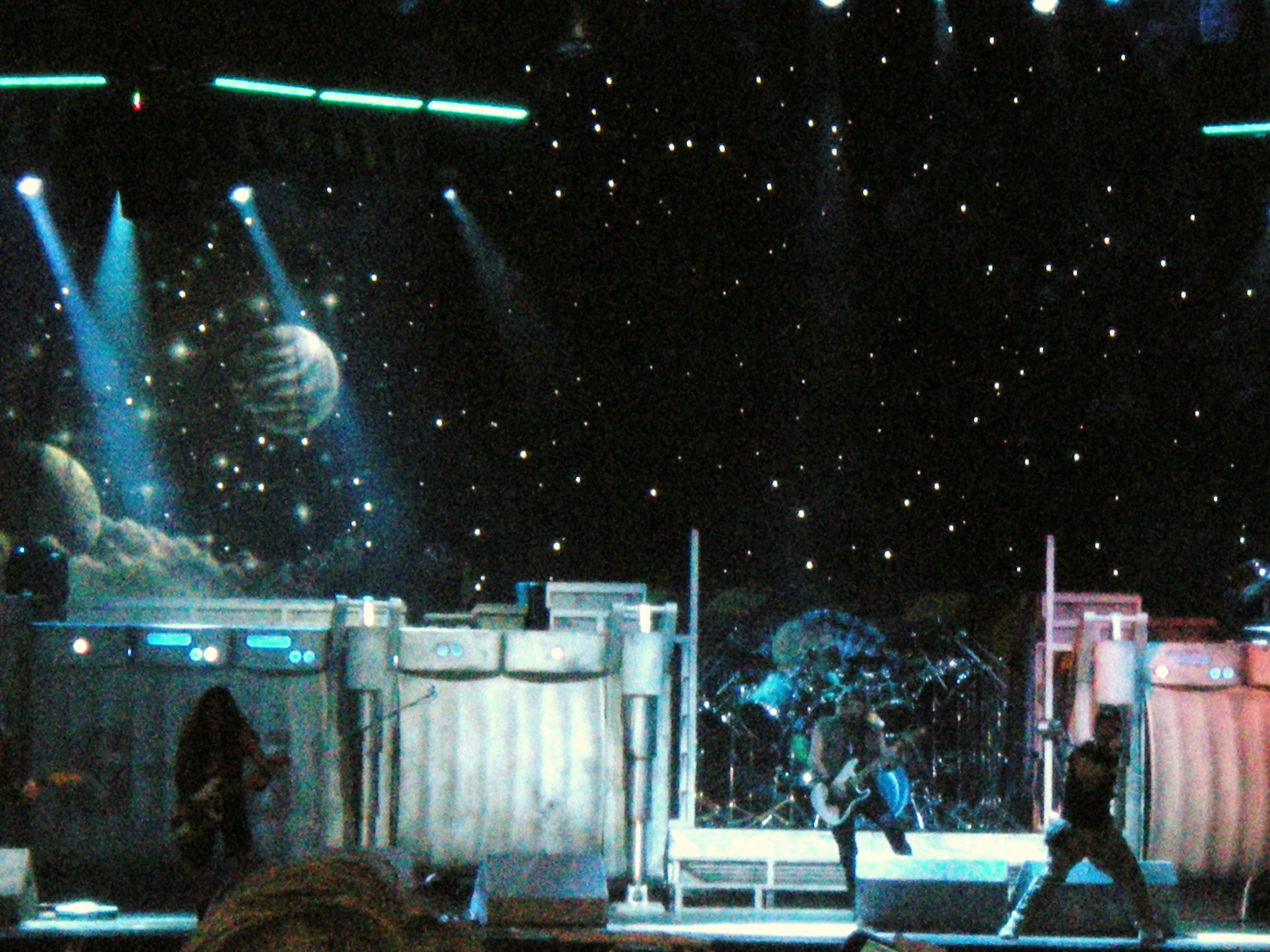 Iron Maiden at Sonisphere Festival, Stockholm Sweden 2010